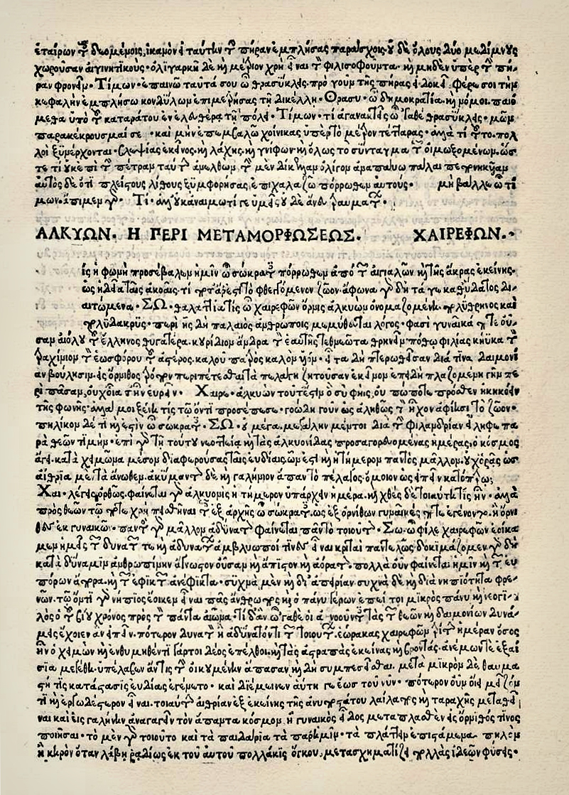 Page of the Somnium sive vita Luciani, Florence 1496. Dialogue Halkyon.